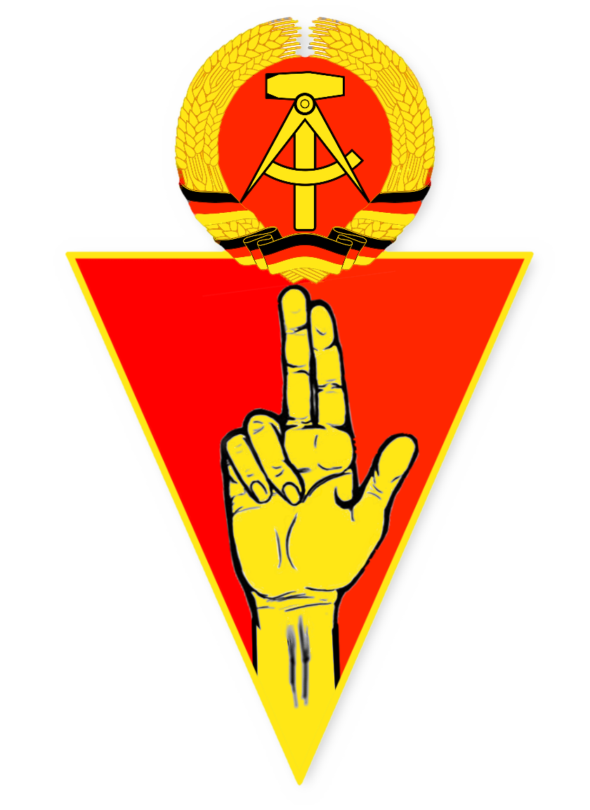 The logo of the East German Komitee der Antifaschistischen Widerstandskämpfer